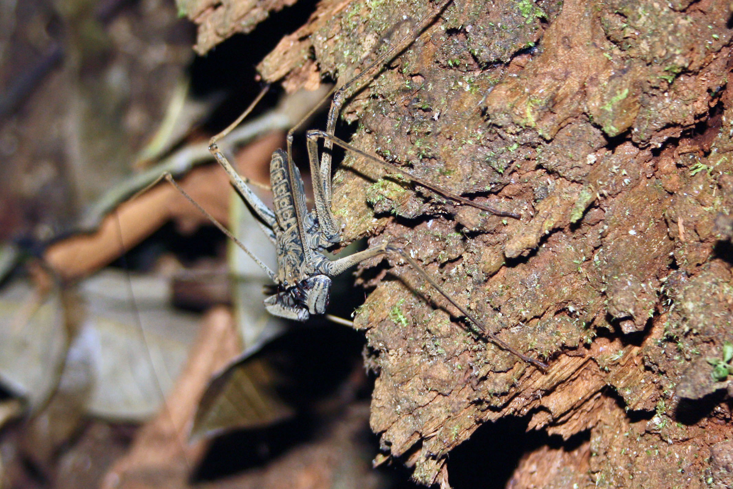 Tailless whip scorpion (Amblypygi), OSA Peninsula, Costa Rica